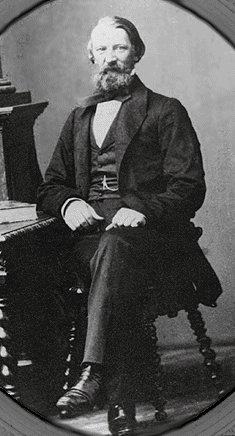 Michael Lienau (1816-1893), honorary citizen of Uetersen